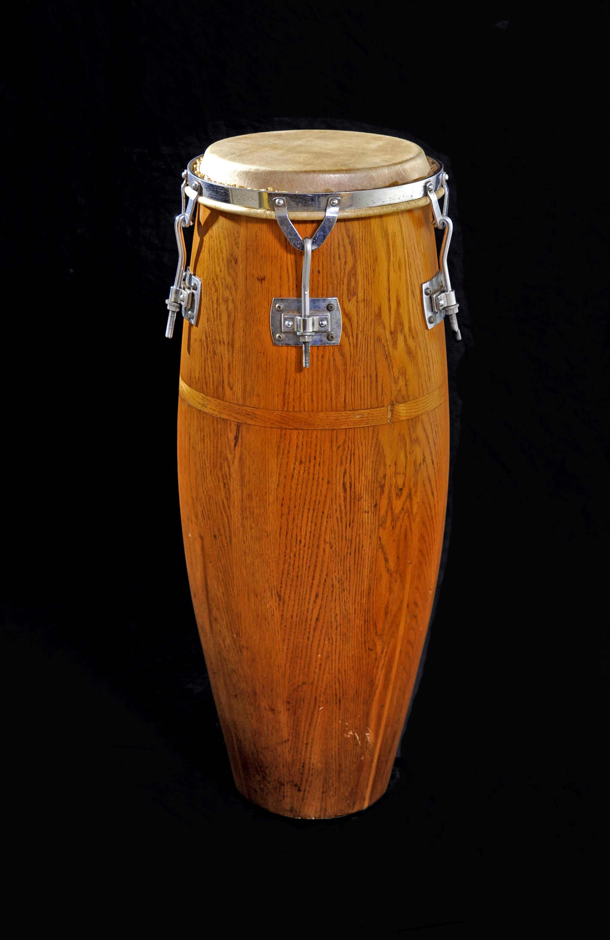 This is a Gon Bops oak quinto drum c. 1976.Unknown